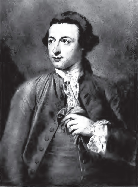 Portrait of George Wilbraham by Pompeo Batoni (1708—1787)